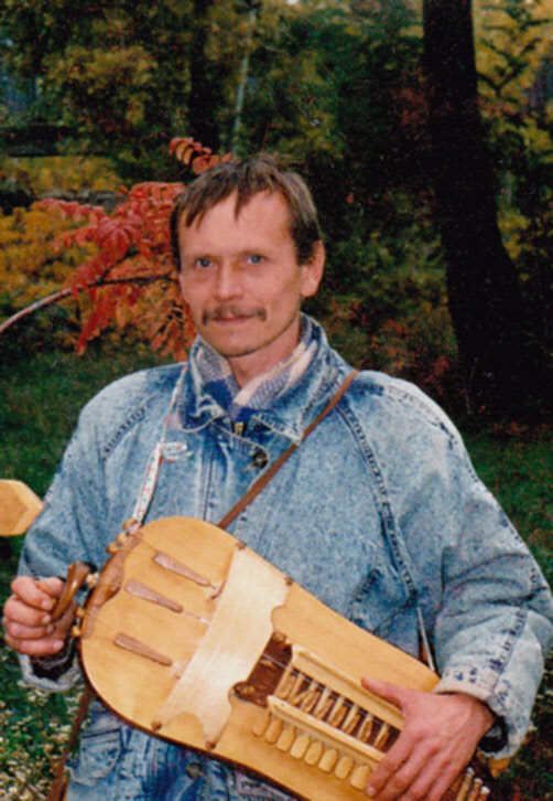 Mykola Budnyk, Kobzar, master of music instruments with hurdy gurdy (approx. 1995)